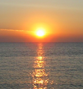 sunrise over the sea Created by me, in Neptun, Romania on the Black Sea shore in summer 2003.